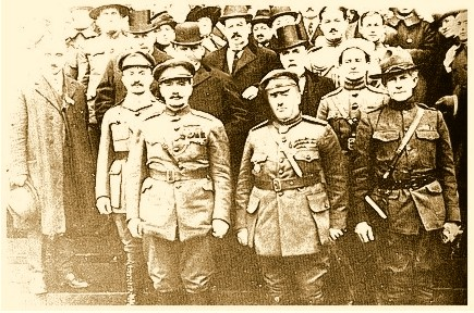 General Andranik Ozanian, General Jaques Bagratuni, and Hovhannes Katchaznouni with Armenian military personal in the United States in 1919.